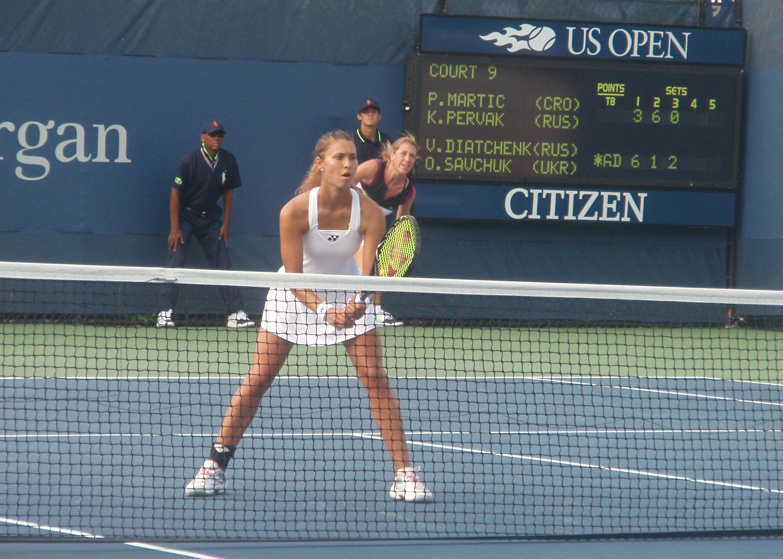 Vitalia Diatchenko US Open